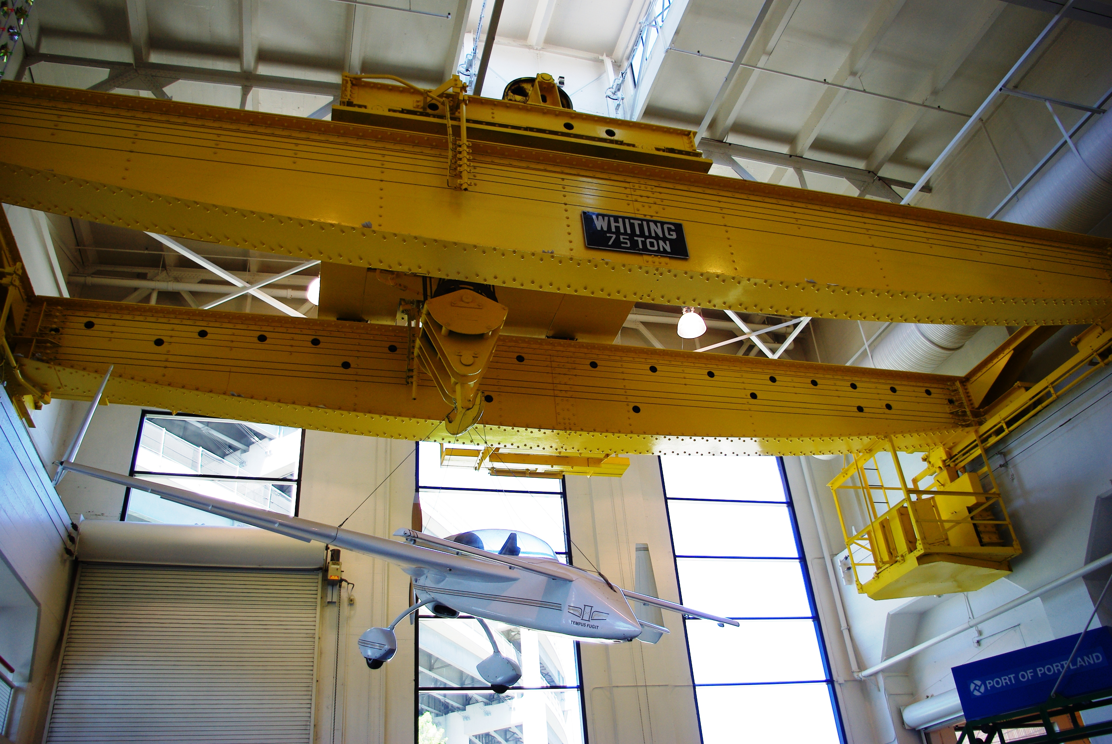 Crane and airplane inside Oregon Museum of Science and Industry.